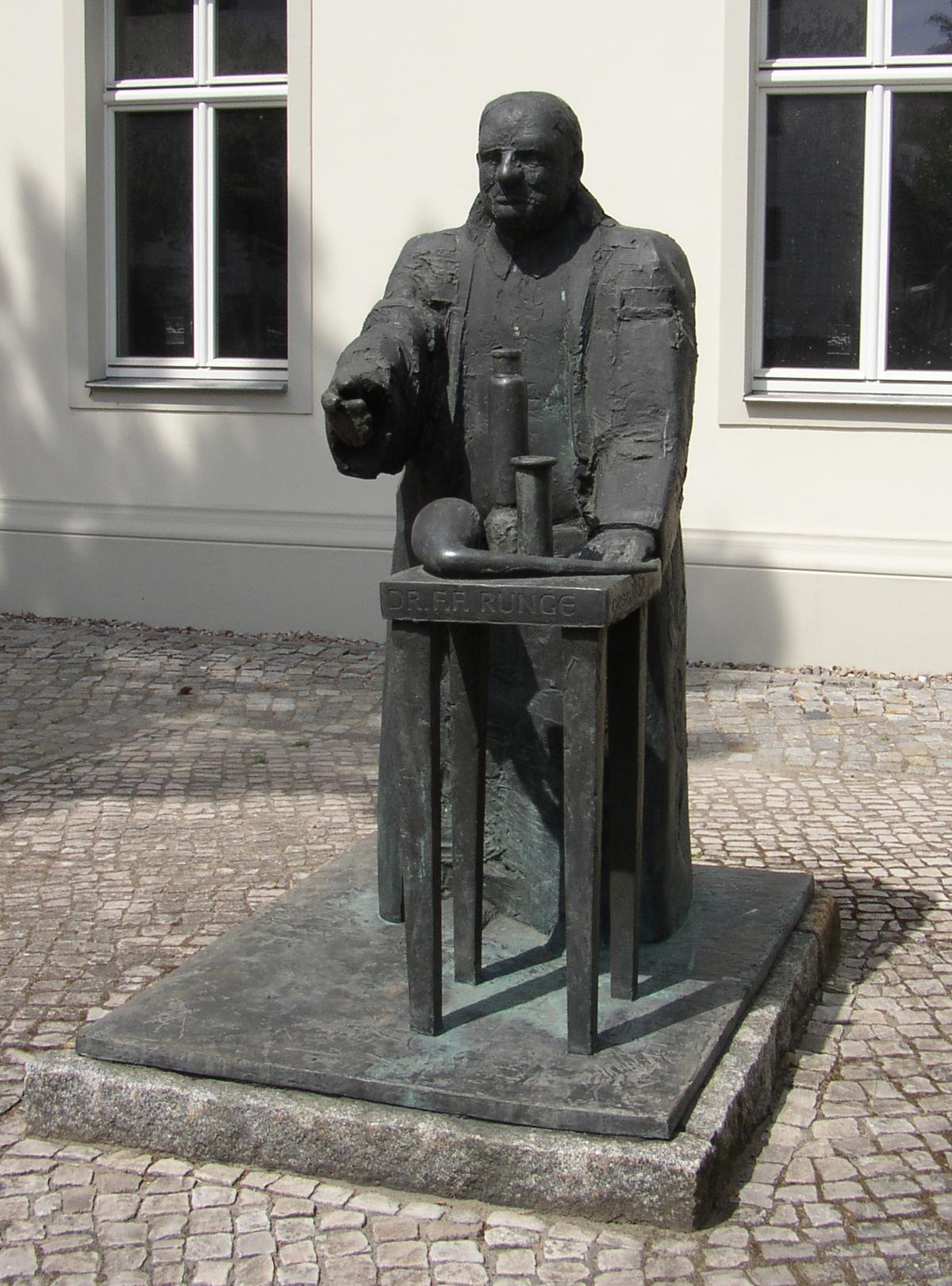 Memorial for Friedlieb Ferdinand Runge in Oranienburg in Brandenburg, Germany